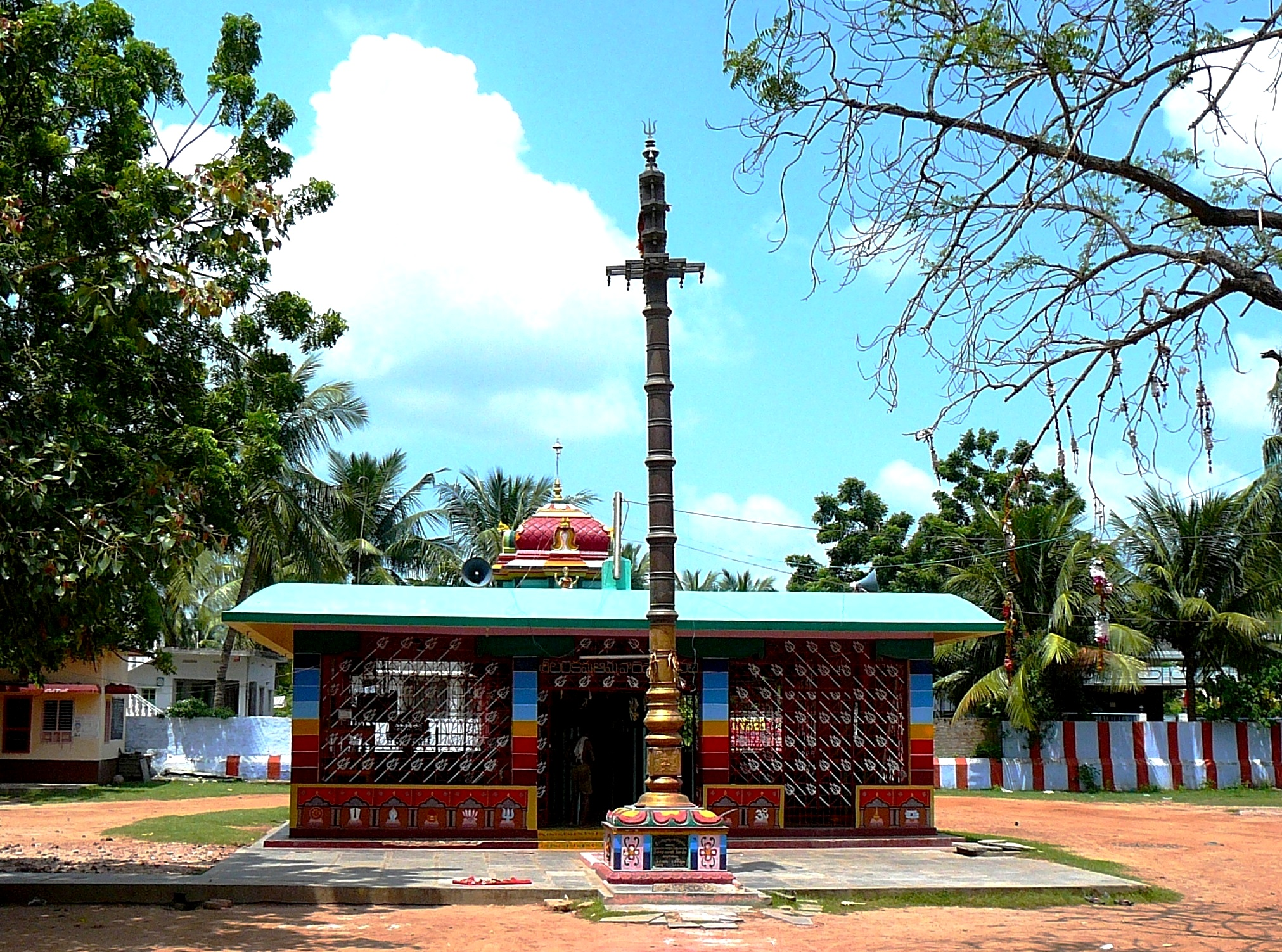 Holy Goddess Sri Lankamma Ammavari Temple situated at Avanigadda of old Divi Taluk of Krishna District, Andhra Pradesh, India.